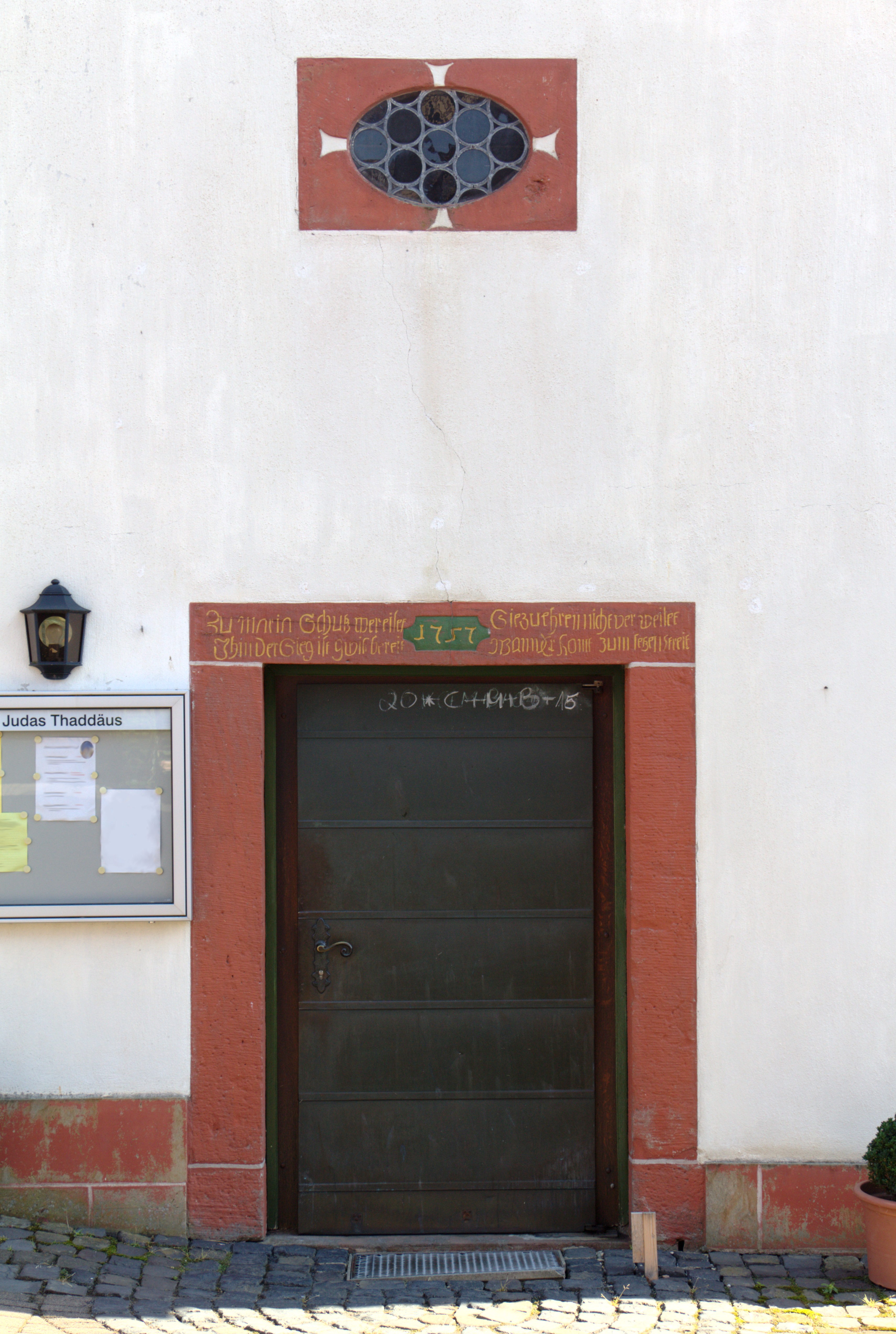 Judas Thaddaeus church (Detail) in Zell, Fulda, Hesse, Germany